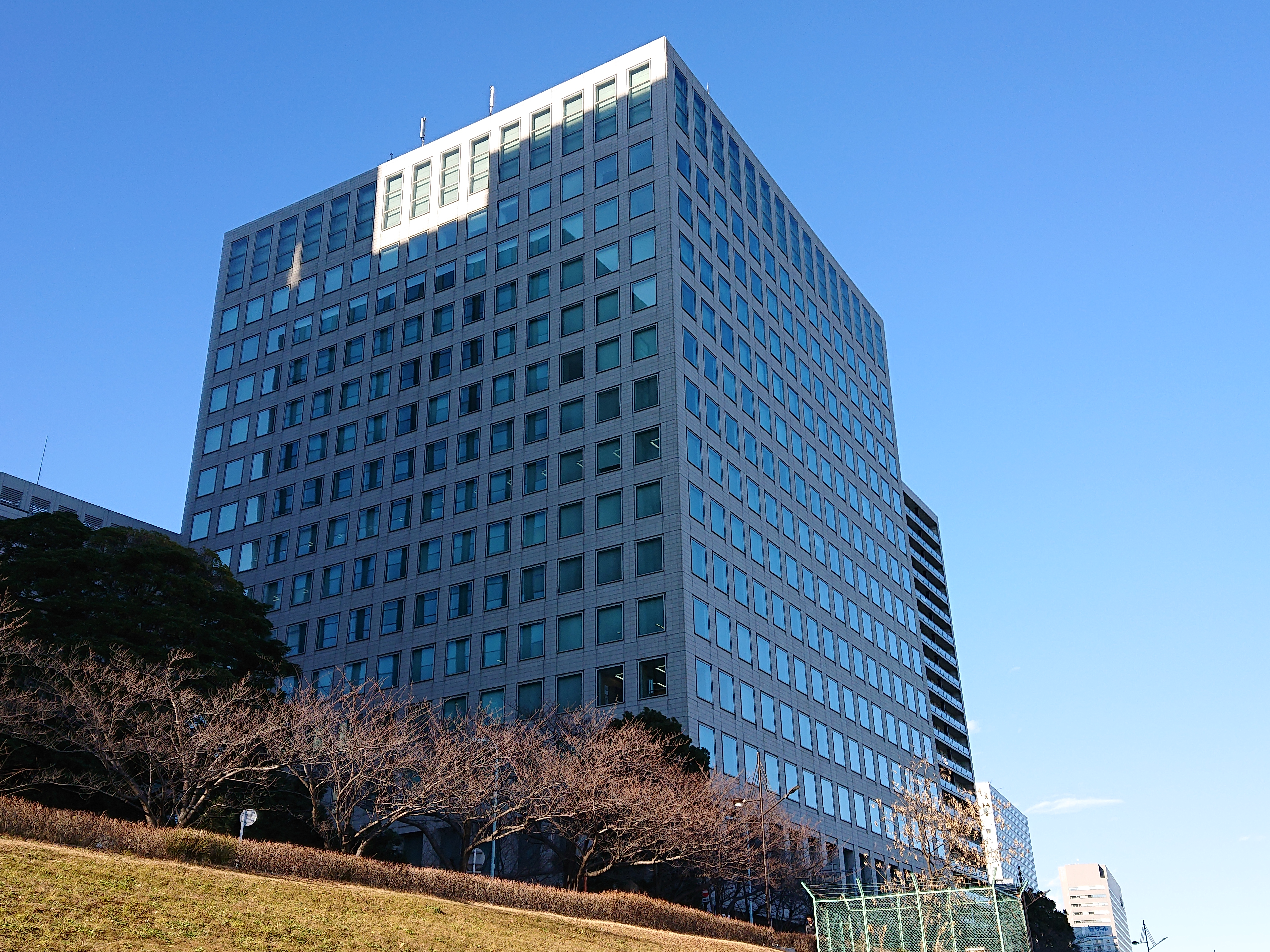 Tokyo Dia Building No.5 (東京ダイヤビルディング5号館), located at 1-28-23 Shinkawa, Chuo, Tokyo, Japan